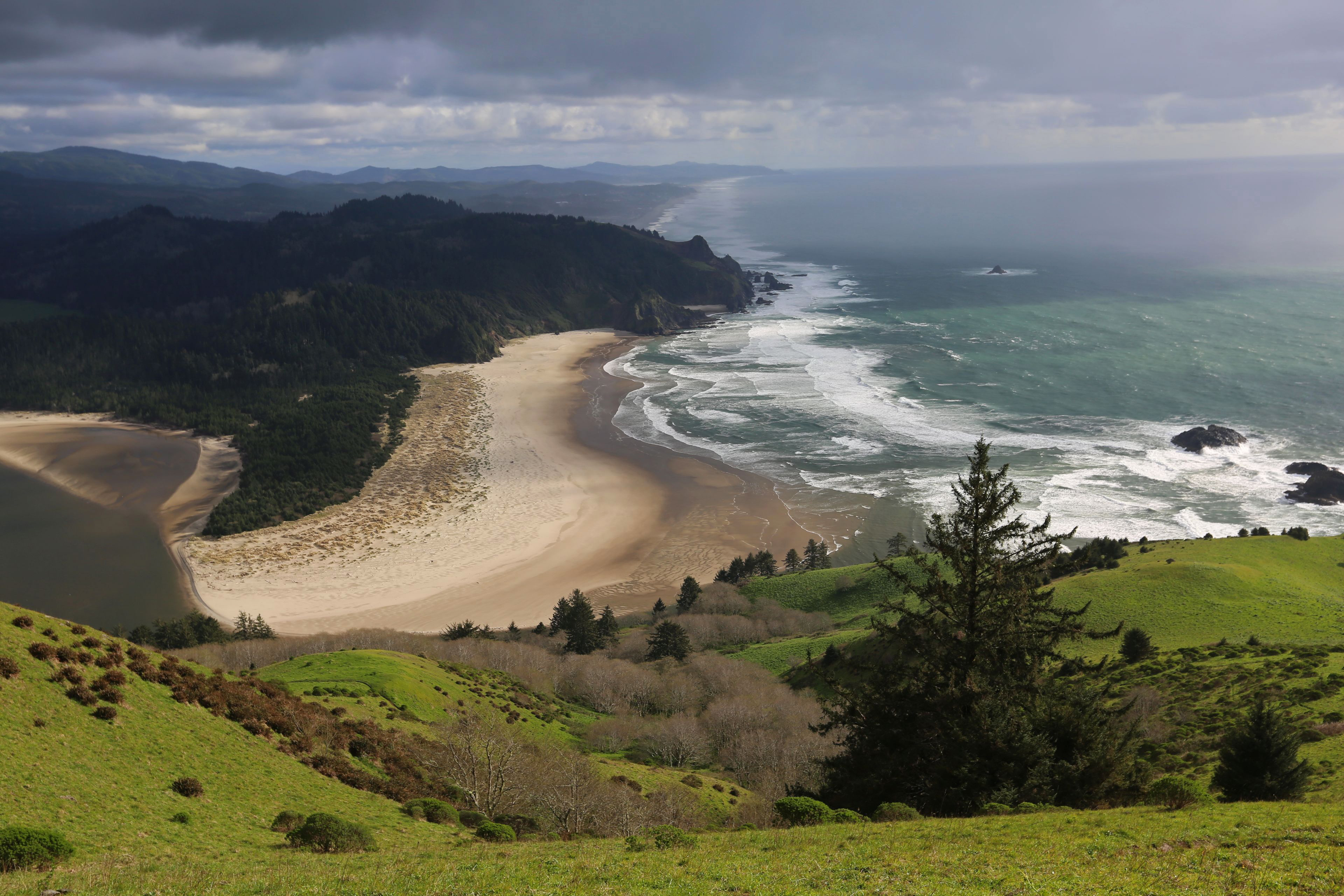 Looking south from Cascade Head, OR You are free to use this image with the following photo credit: Peter Pearsall/U.S. Fish and Wildlife Service